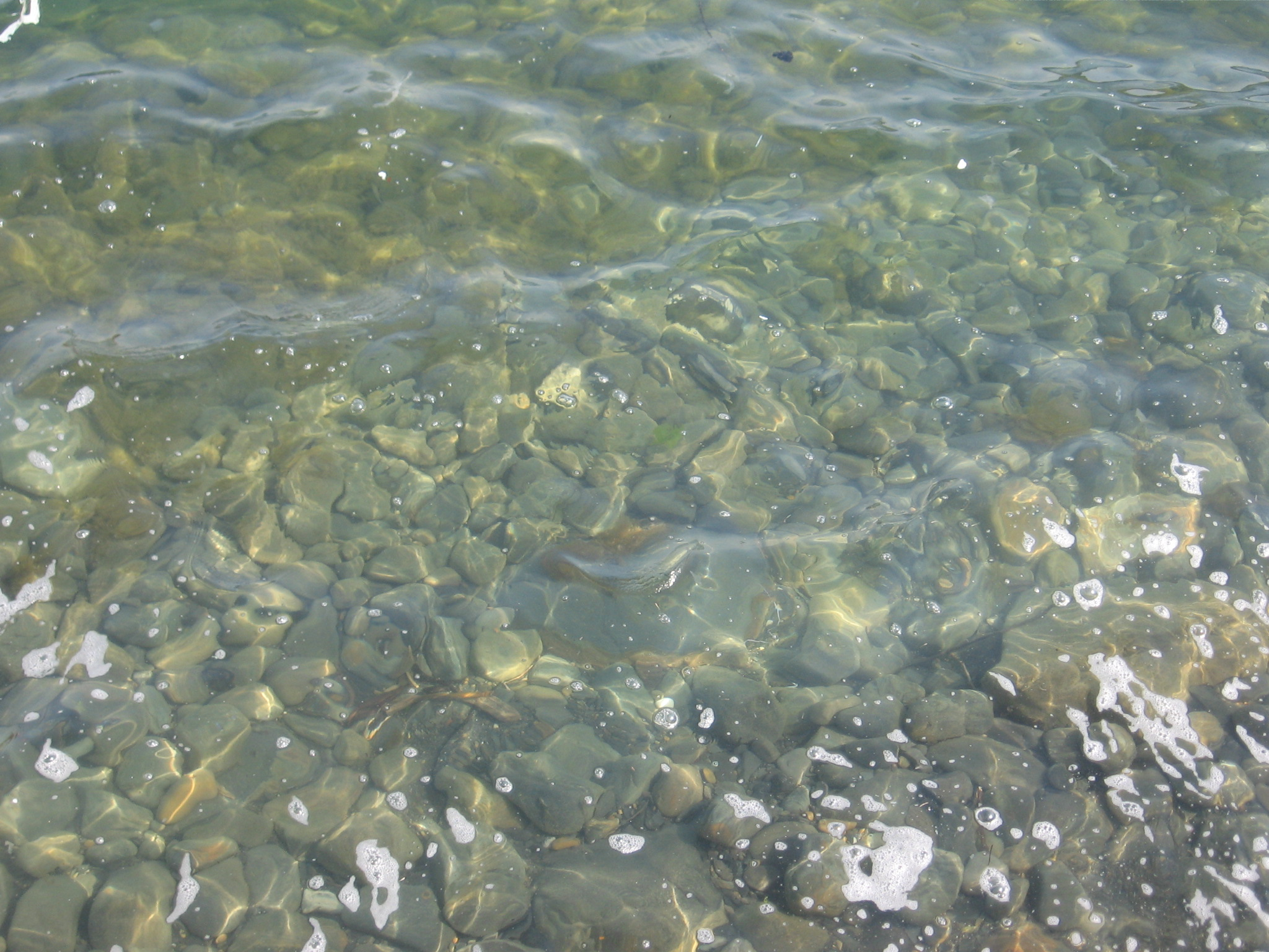 Black sea water